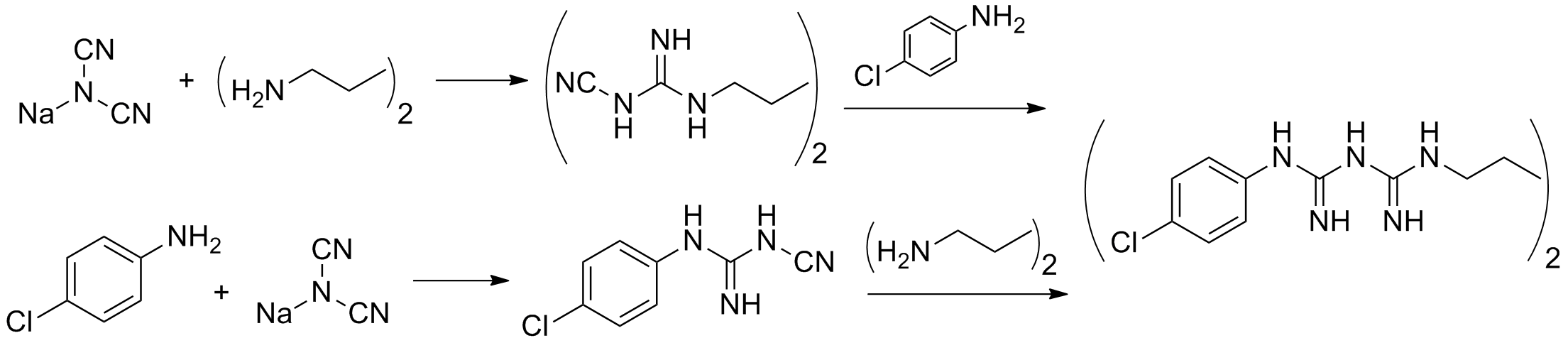 Bisbiguanide with bacteriostatic activity. Prepn: Rose, Swain, J. Chem. Soc. 1956, 4422; eidem, US 2684924 (1954 to I.C.I.). Antibacterial activity and acute toxicity: G. E. Davies et al., Br. J. Pharmacol. 9, 192 (1954). Review of toxicology and clinical uses: D. M. Foulkes, J. Periodontal Res. 8, Suppl. 12, 55-60 (1973). Series of articles on clinical efficacy in gingivitis and plaque control: ibid. 21, Suppl. 16, 1-89 (1986).